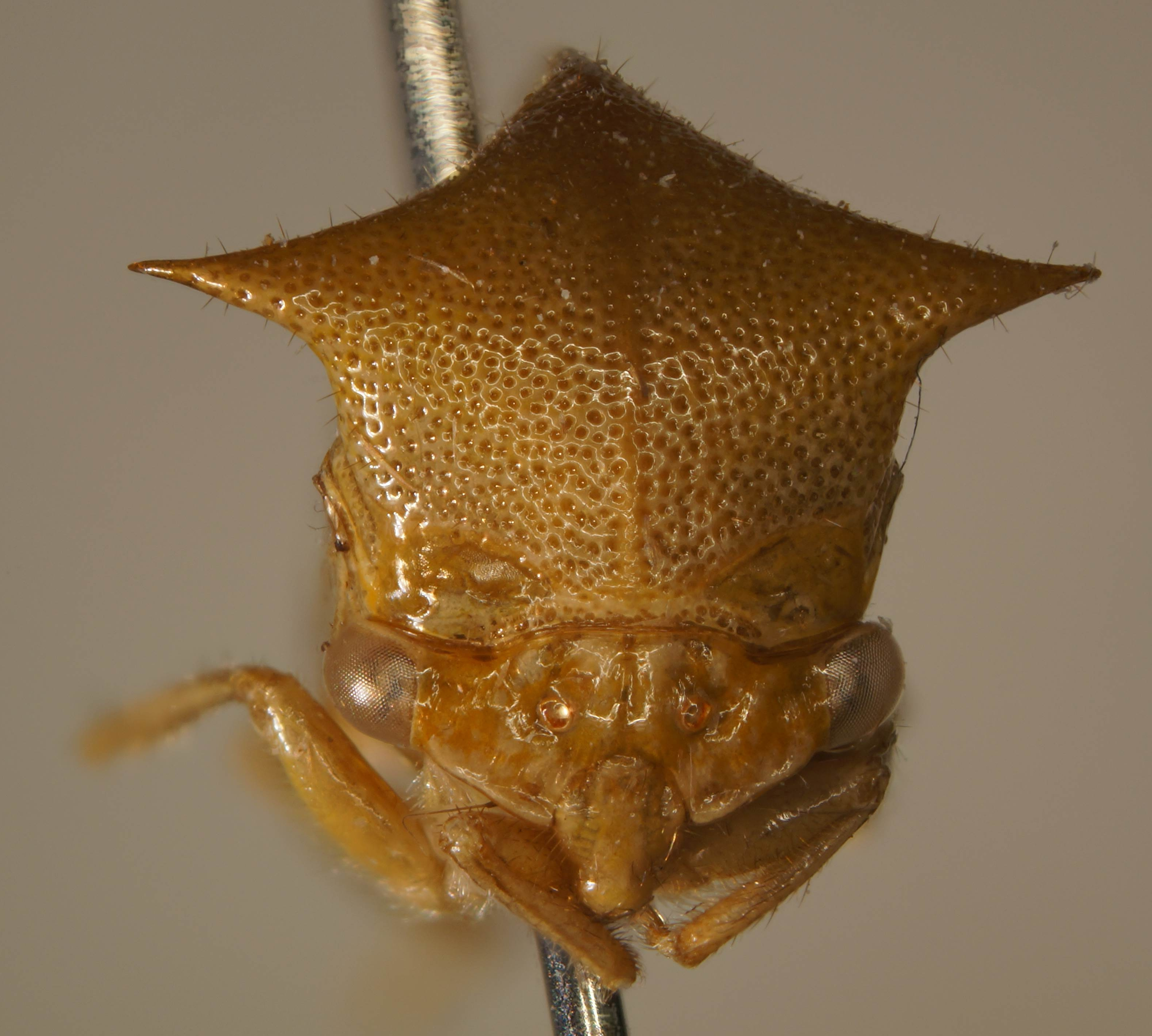 Ceresa vitulus (Fabricius, 1775), as seen from anterior, specimen collected in ACP Panguana, Peru.